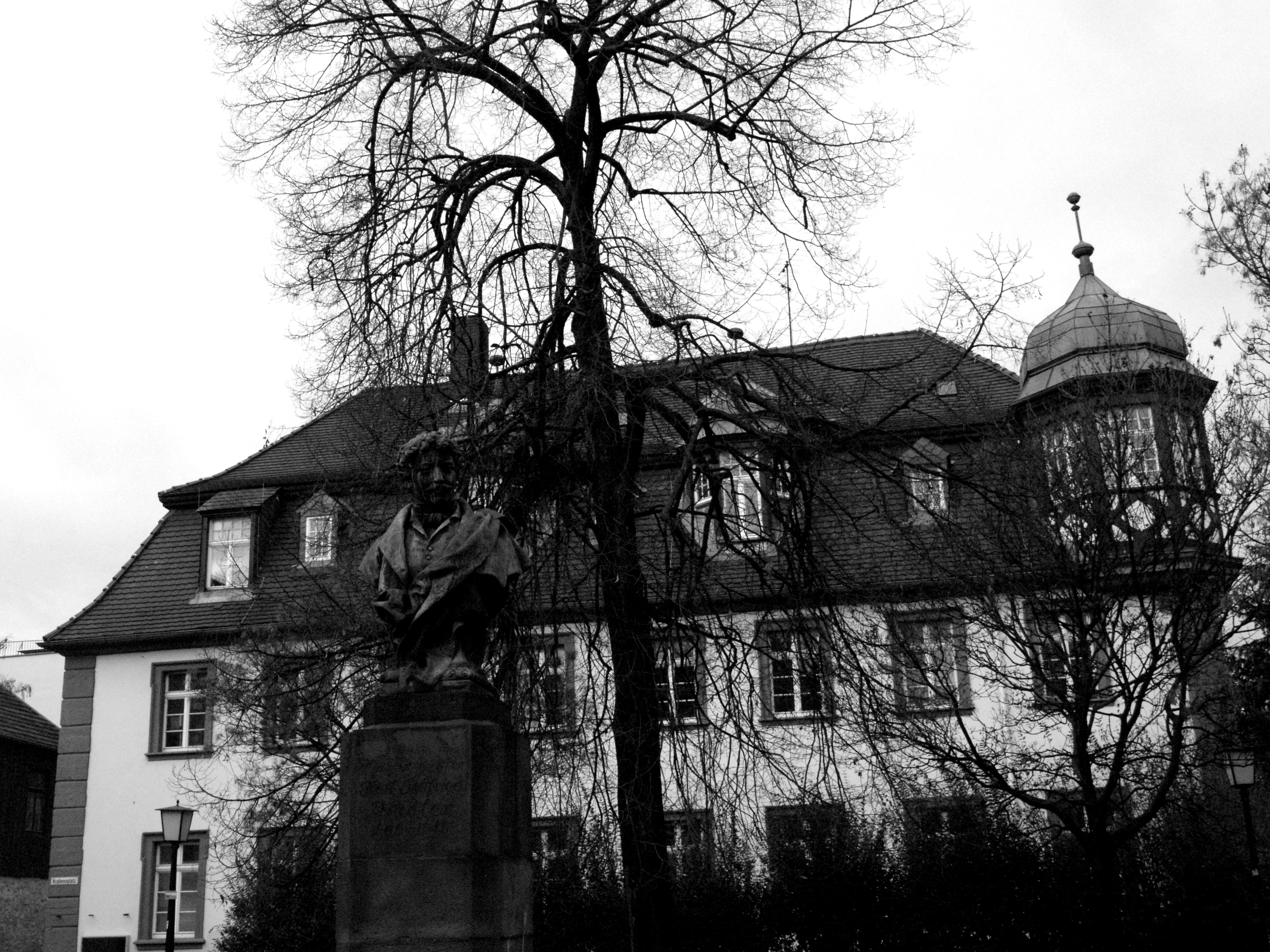 The "Wartburg" in the Old City of Heidelberg. Home to 28 students and the "Akademisch-Theologische Verbindung Wartburg zu Heidelberg".